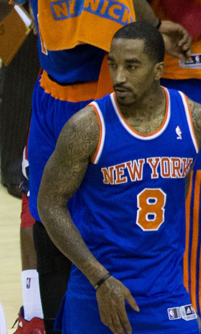 J.R. Smith, New York Knicks at Washington Wizards March 1, 2013